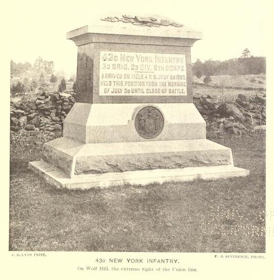 43rd New York Infantry Monument, Gettysburg Battlefield. New York Monuments Commission, Final Report on the Battlefield of Gettysburg, Volume 1 (Albany, NY: J.B. Lyons Company, 1902), opp. p. 330.[1]